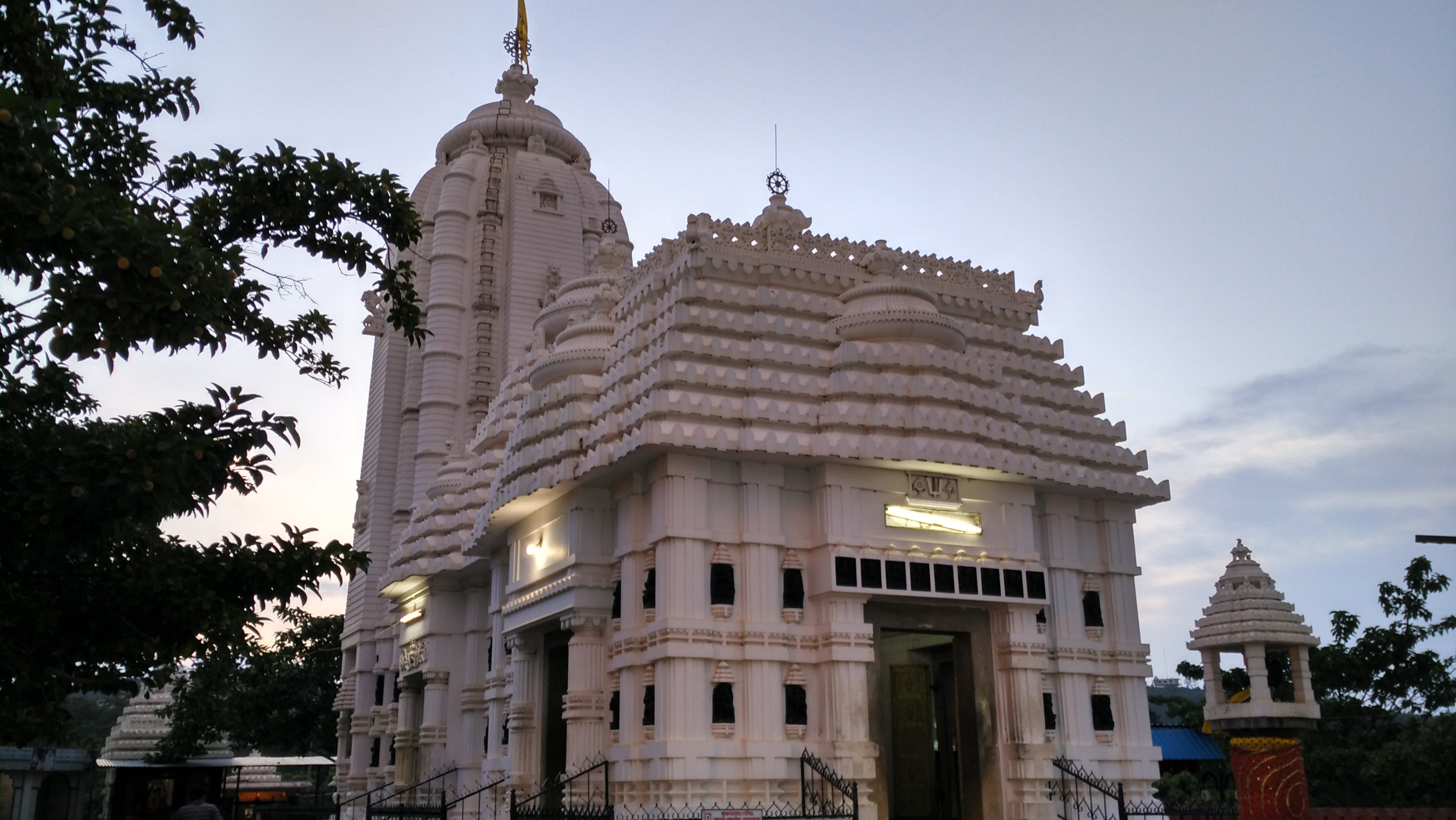 ନବ ନିର୍ମିତ ଜଗନ୍ନାଥ